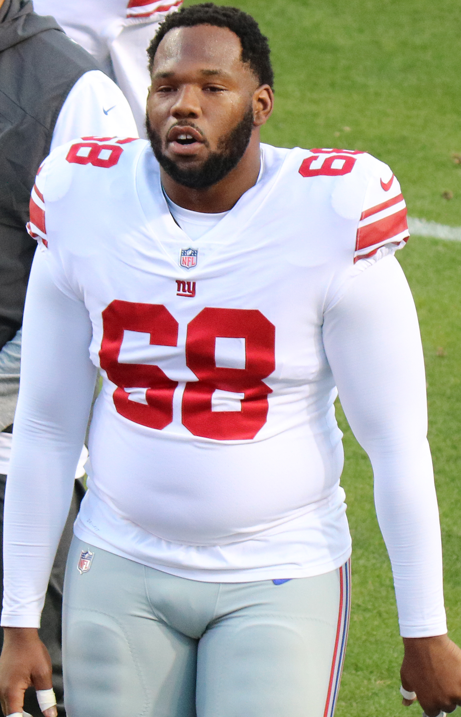 Bobby Hart, a player on the National Football League.